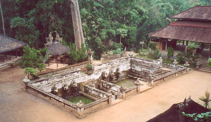 Fountain at Goa Gajah, the elephant cave (near Ubud, Bali)